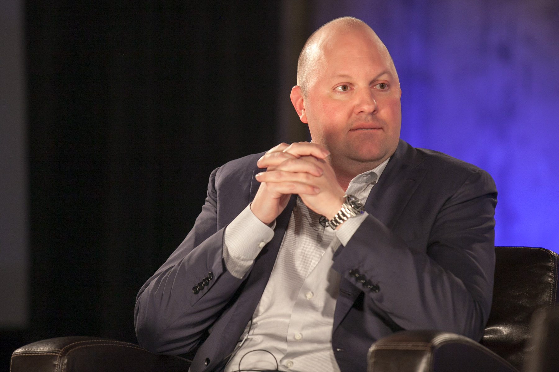 Marc Andreessen at Pando Monthly with interviewer Sarah Lacy, at Dogpatch Studios in SF on Oct. 3, 2013.